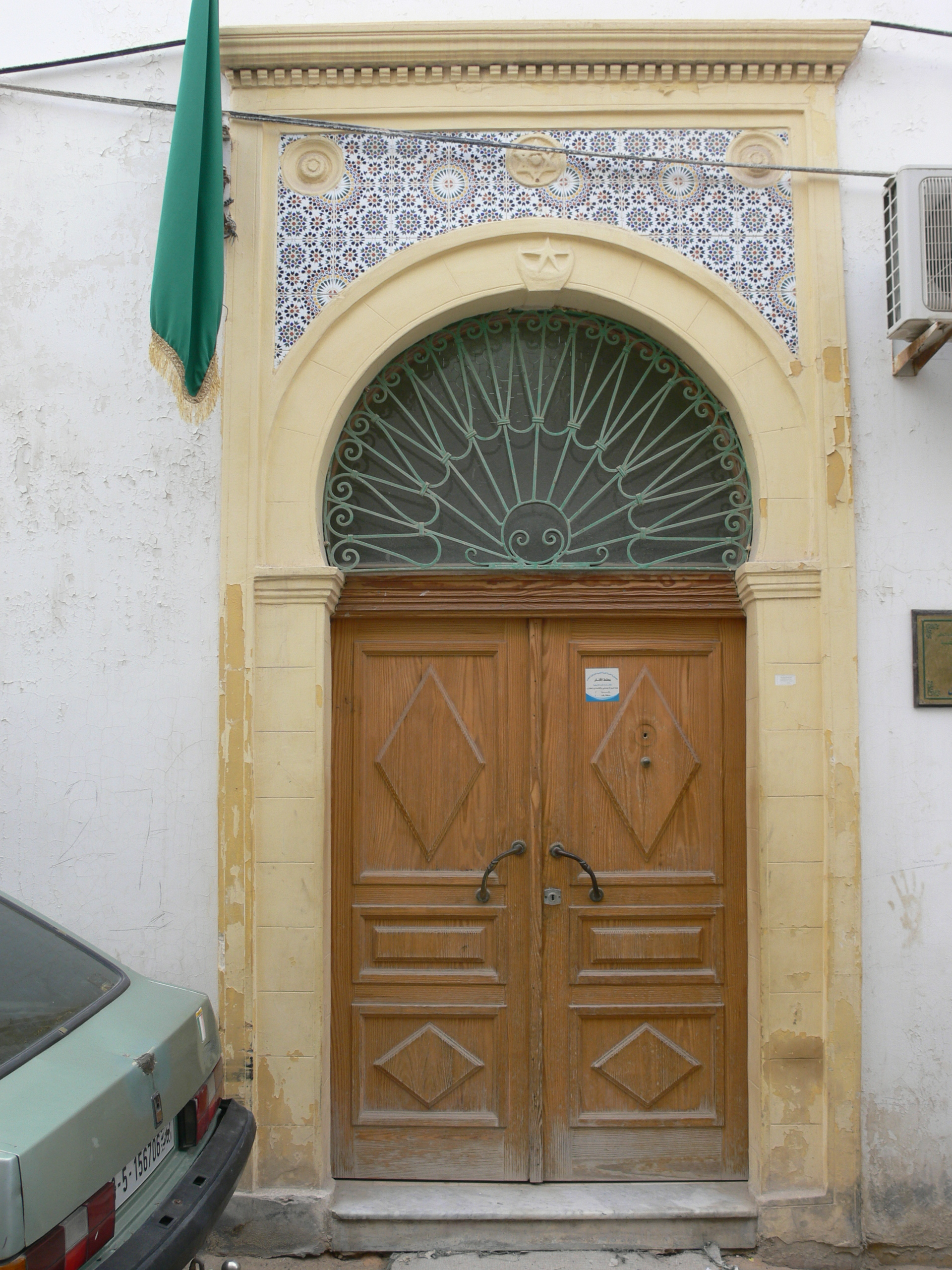 Dar E Serousi Synagogue/Hebrew School — in Tripoli Old Town, Libya.